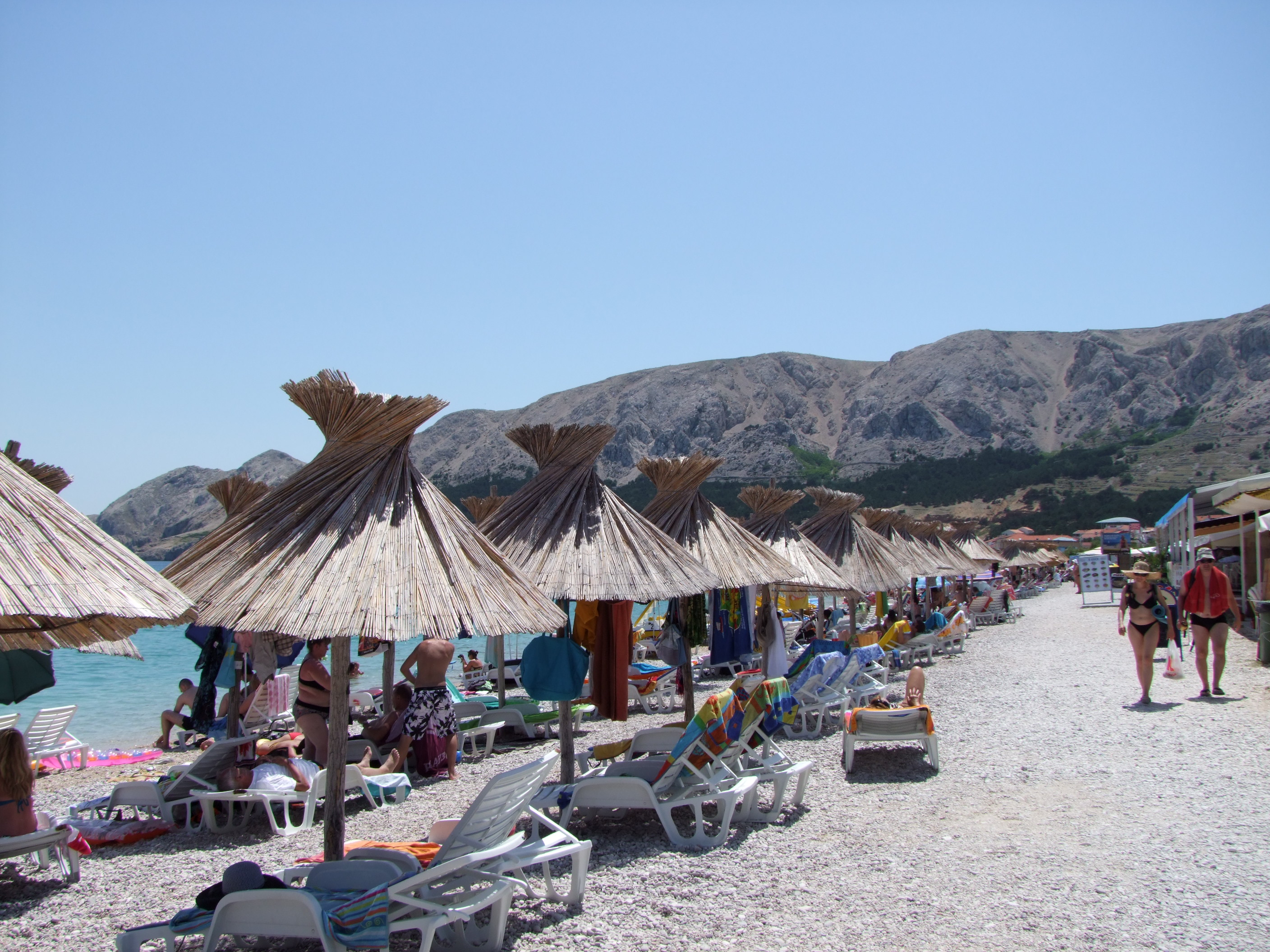 Baška beach.